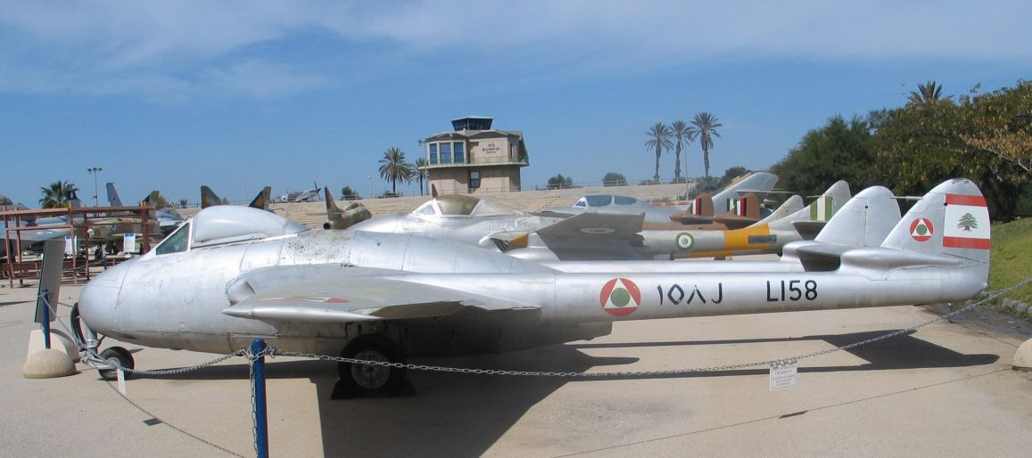 Description: De Havilland Vampire at Muzeyon Heyl ha-Avir, Hatzerim airbase, Israel. 2006. Source: Photo by me, User:Bukvoed.